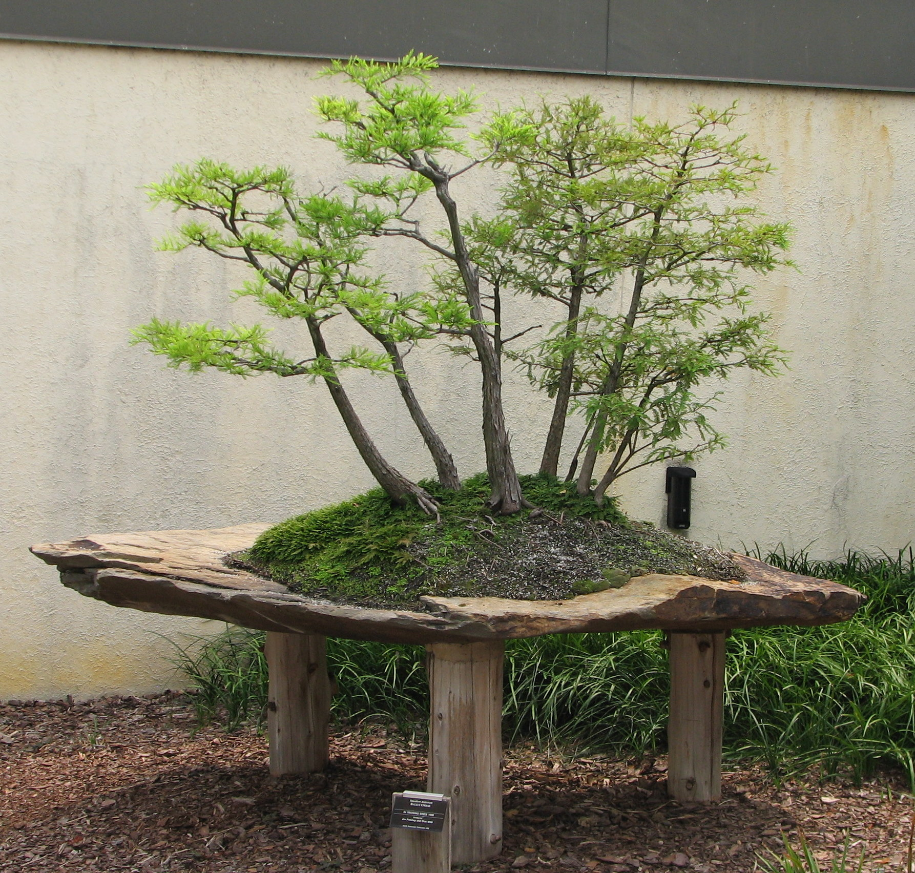 A Bald Cypress (Taxodium distichum) forest bonsai on display at the National Bonsai & Penjing Museum at the United States National Arboretum. According to the tree's display placard, it has been in training since 1988. It was donated by Jim Fritchey and Dick Wild.